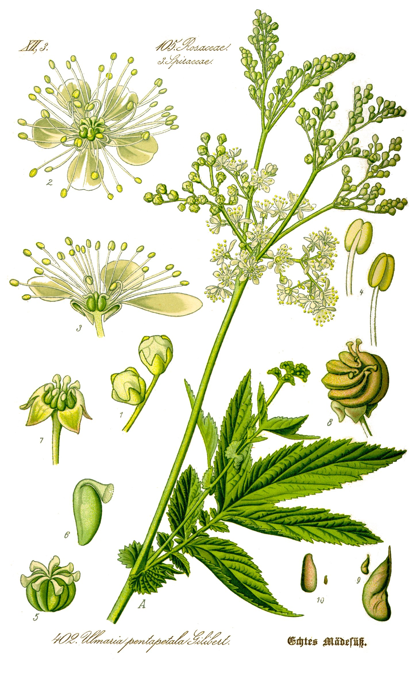 Clean version of Image:Illustration_Filipendula_ulmaria0.jpg Name Filipendula ulmaria Family Rosaceae